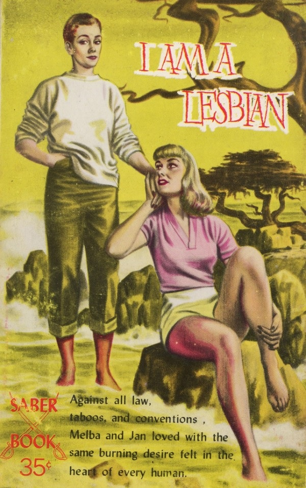 Cover of "I Am A Lesbian" by Lora Sela.